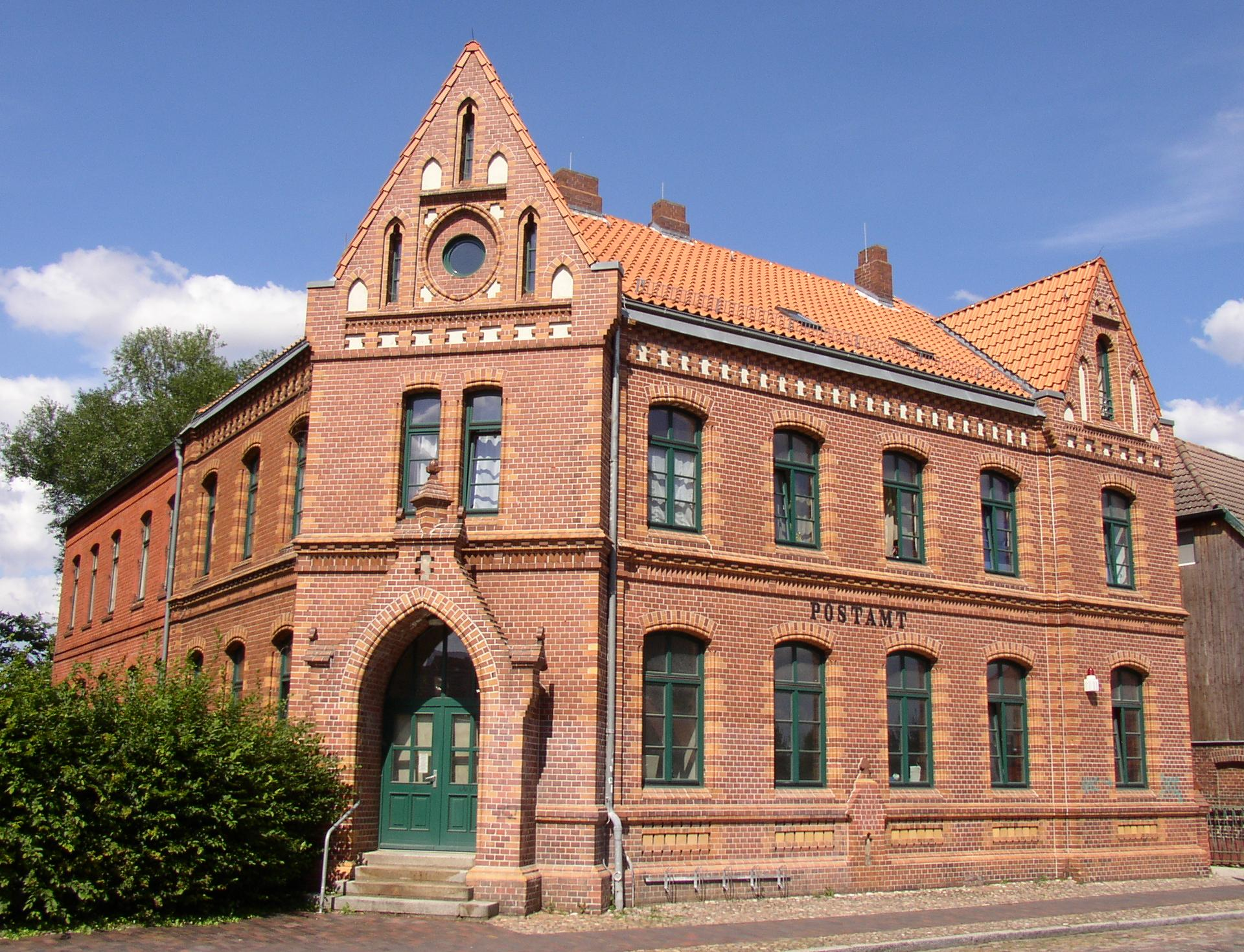 Former post office in Boizenburg in Mecklenburg-Western Pomerania, Germany